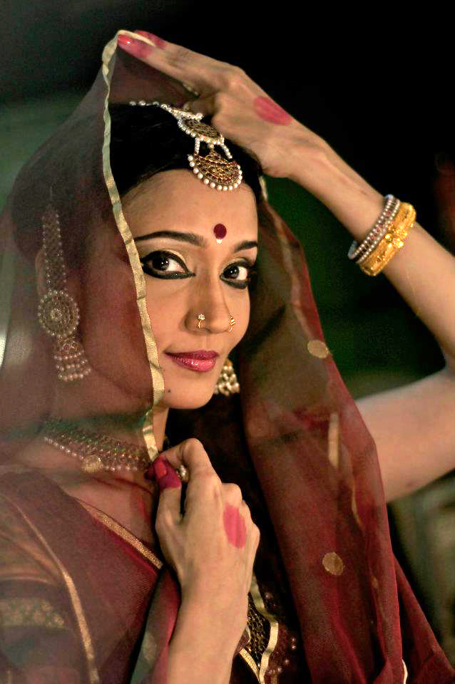 Bharatanatyam Danseuse Savitha Sastry